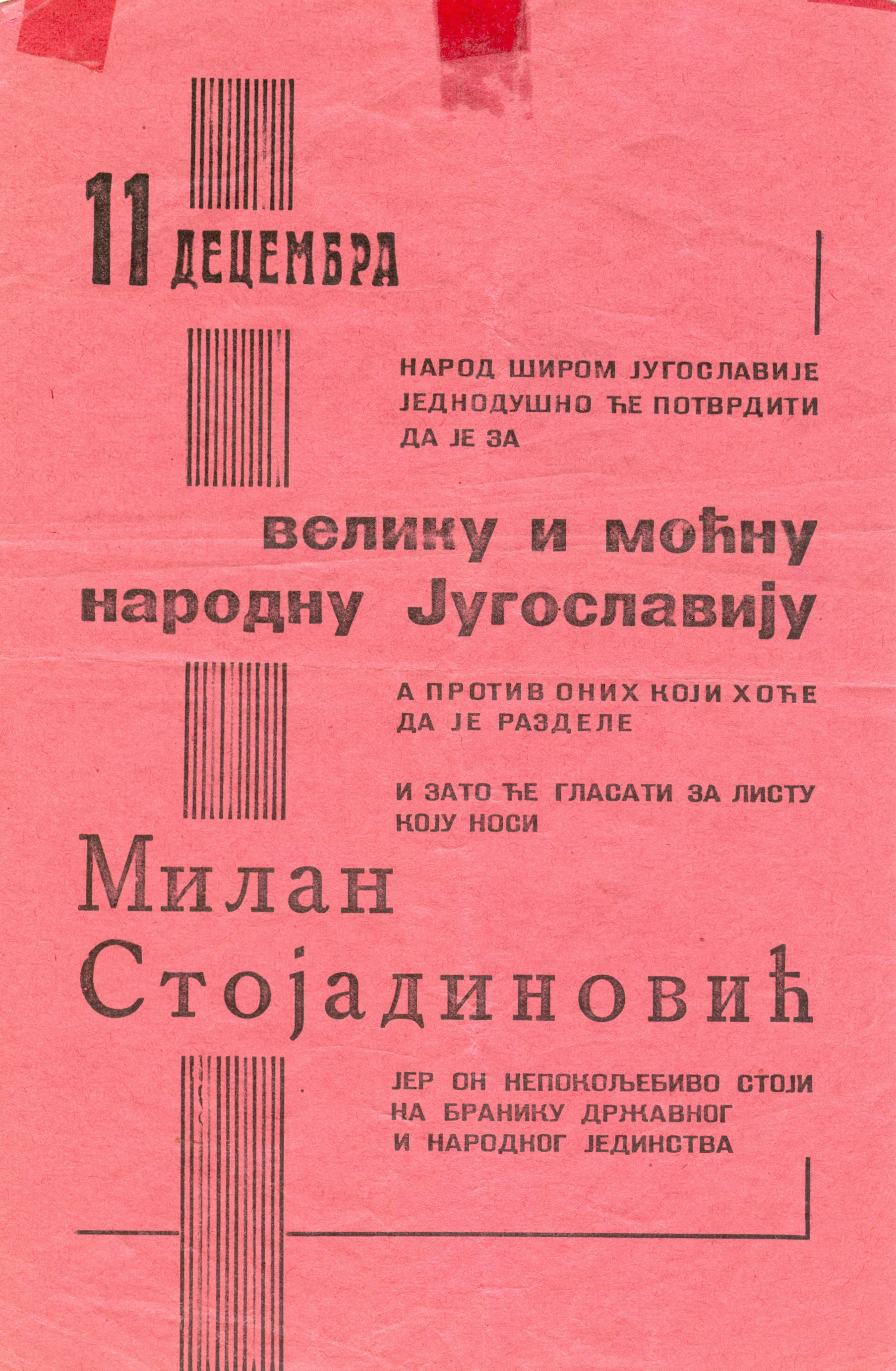 Milan Stojadinovic's poster for the 1938 elections Srpski (latinica): Predizborni poster Milana Stojadinovića za izbore 11.decembra 1938.